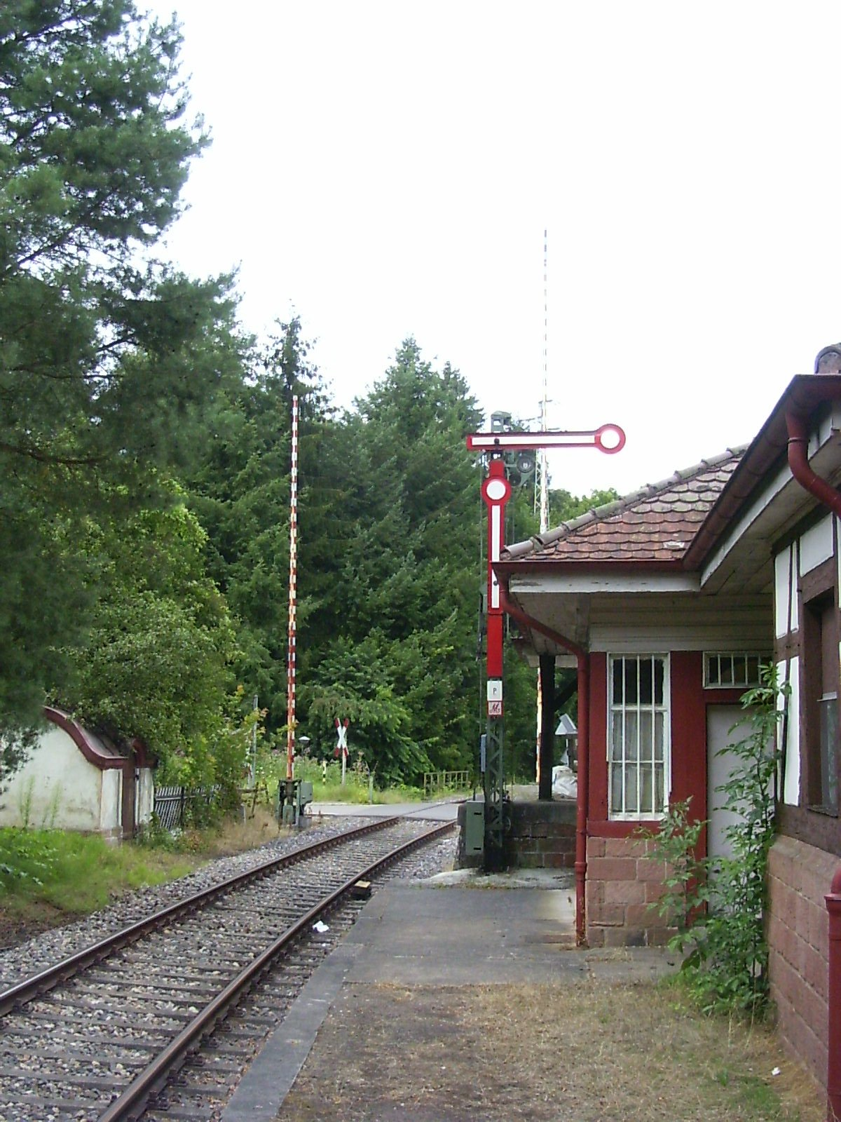 Train station Hinterweidenthal Ort